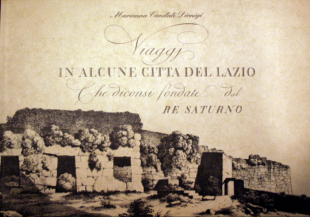 Marianna Candidi Dionigi (1756-1826) wrote the archaelogical descriptions of buildings and monuments during a journey in Lazio.